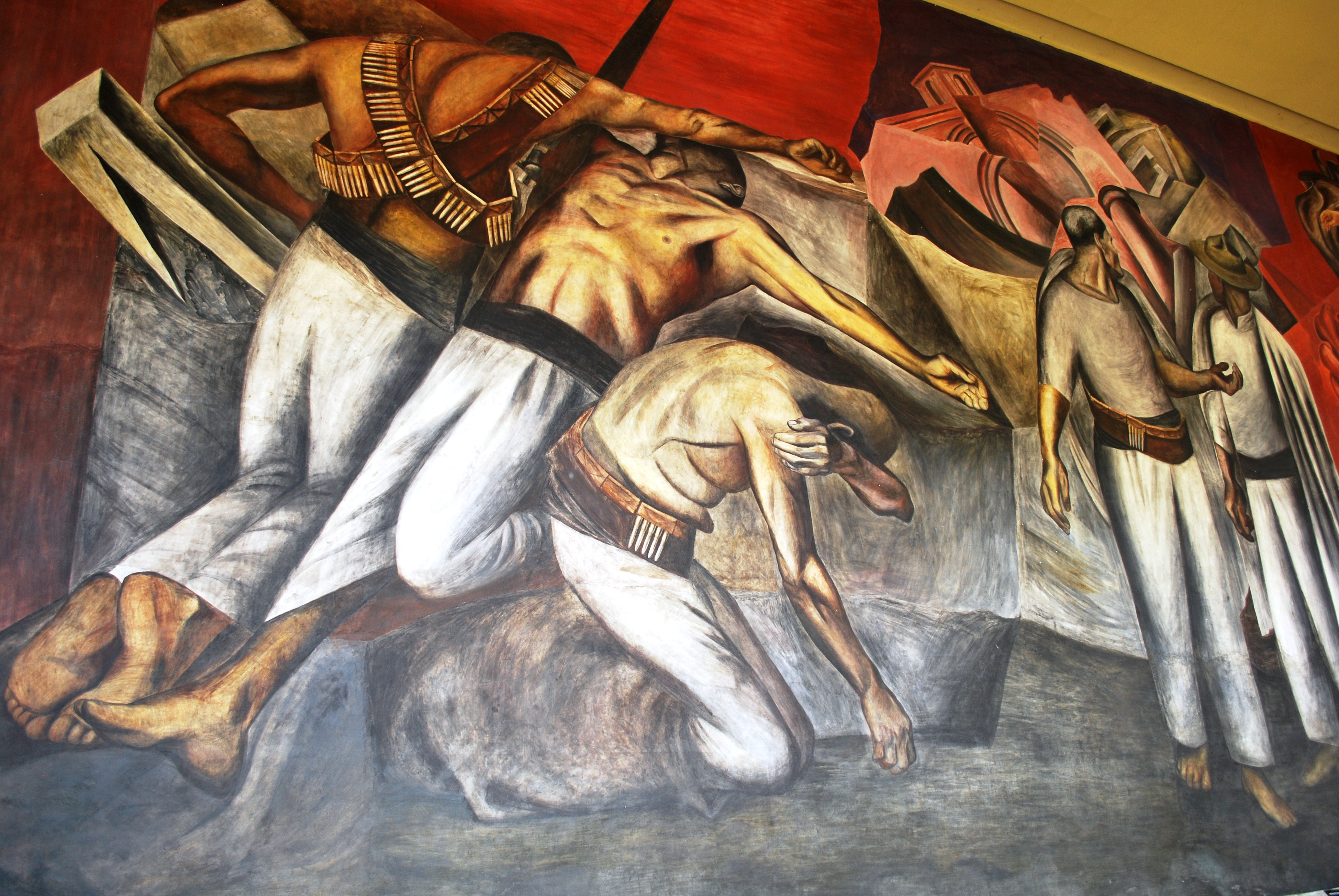 Mural section entitled "La Trinchera" by Jose Clemente Orozco on one of the walls of the San Ildefonso College in the historic center of Mexico City. This mural falls under Freedom of Panorama under Mexican law.